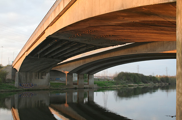 Clifton Bridge in the sunset